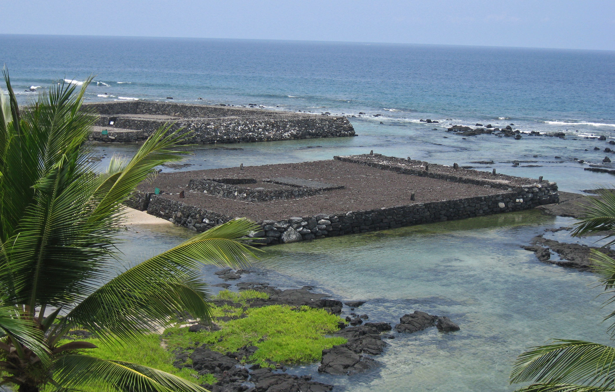 Two ancient Hawaiian heiau — under reconstruction at Kahaluʻu Bay, on the Big Island of Hawaiʻi.